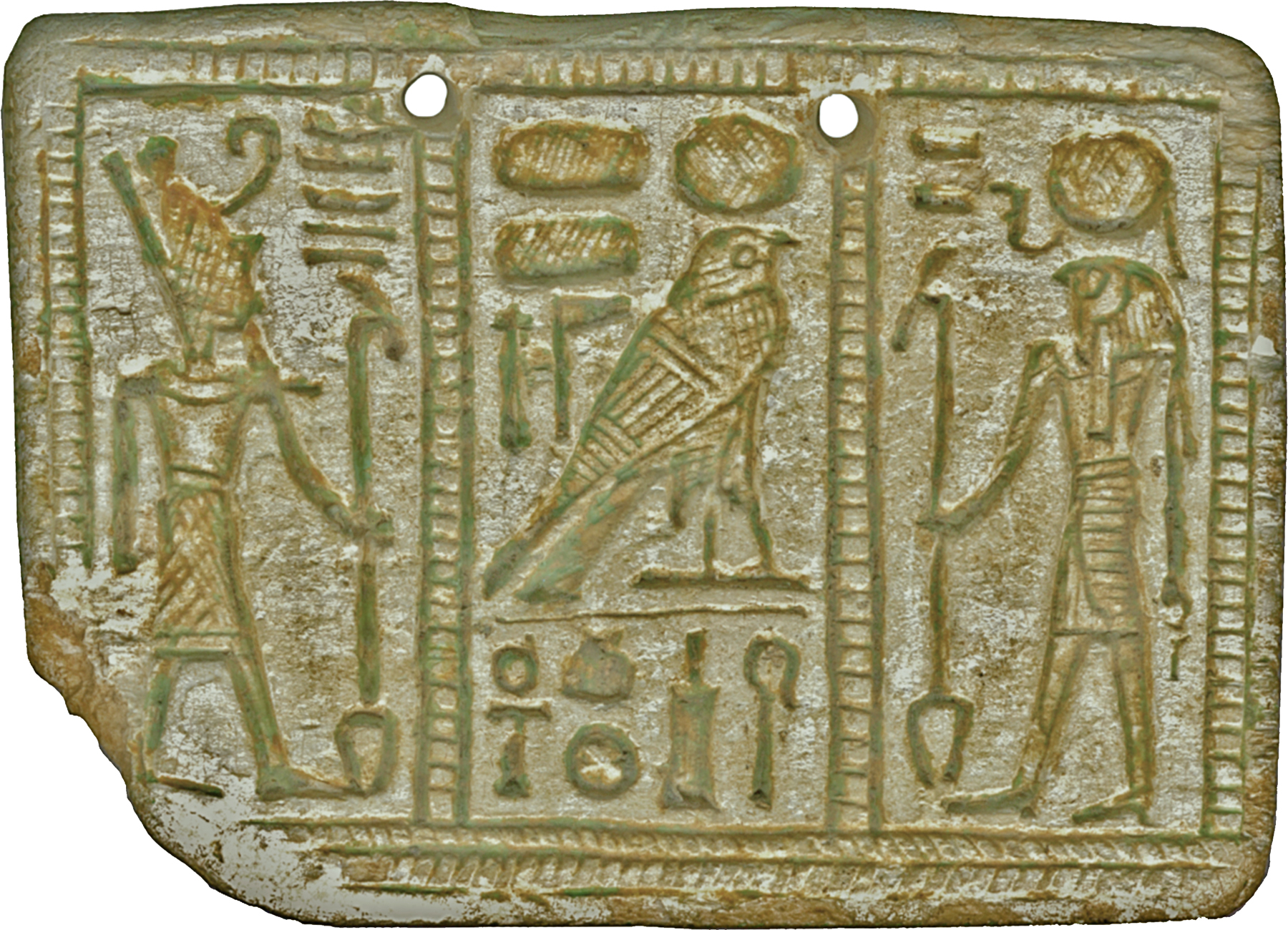 The rectangular pectoral which has two holes for suspension. On one side of the pectoral is the solar boat depicted. Inside of the boat is the winged scarab as well as the moon disk and crescent combination, both are flanked by two standing baboons with adoration gestures. On the other side of the plaque, there are three image fields. On the far left is the god Atum, in the center is the solar falcon and on the far right is the god Re-Harakhte. Atum is named by the inscription as the Lord of the Sky, and the solar falcon as Re-Harakhte, Great God, and Living Lord of Heliopolis and the falcon-headed god just as Re-Harakhte. The sides of the pectoral are decorated with a grid pattern. The pectoral was probably produced during the Ramesside Period or the early Third Intermediate Period.